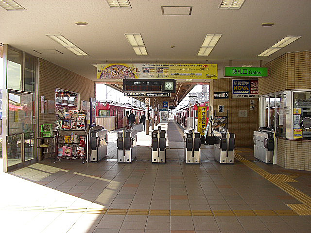 Nagaoya Railroad Seto Line Owari-Seto Station Wicket 名古屋鉄道 瀬戸線 尾張瀬戸駅 改札口